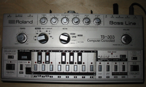 A Roland TB-303 (hacked with a midi interface). Photo (in GFDL) taken by AlexandreDulaunoy.